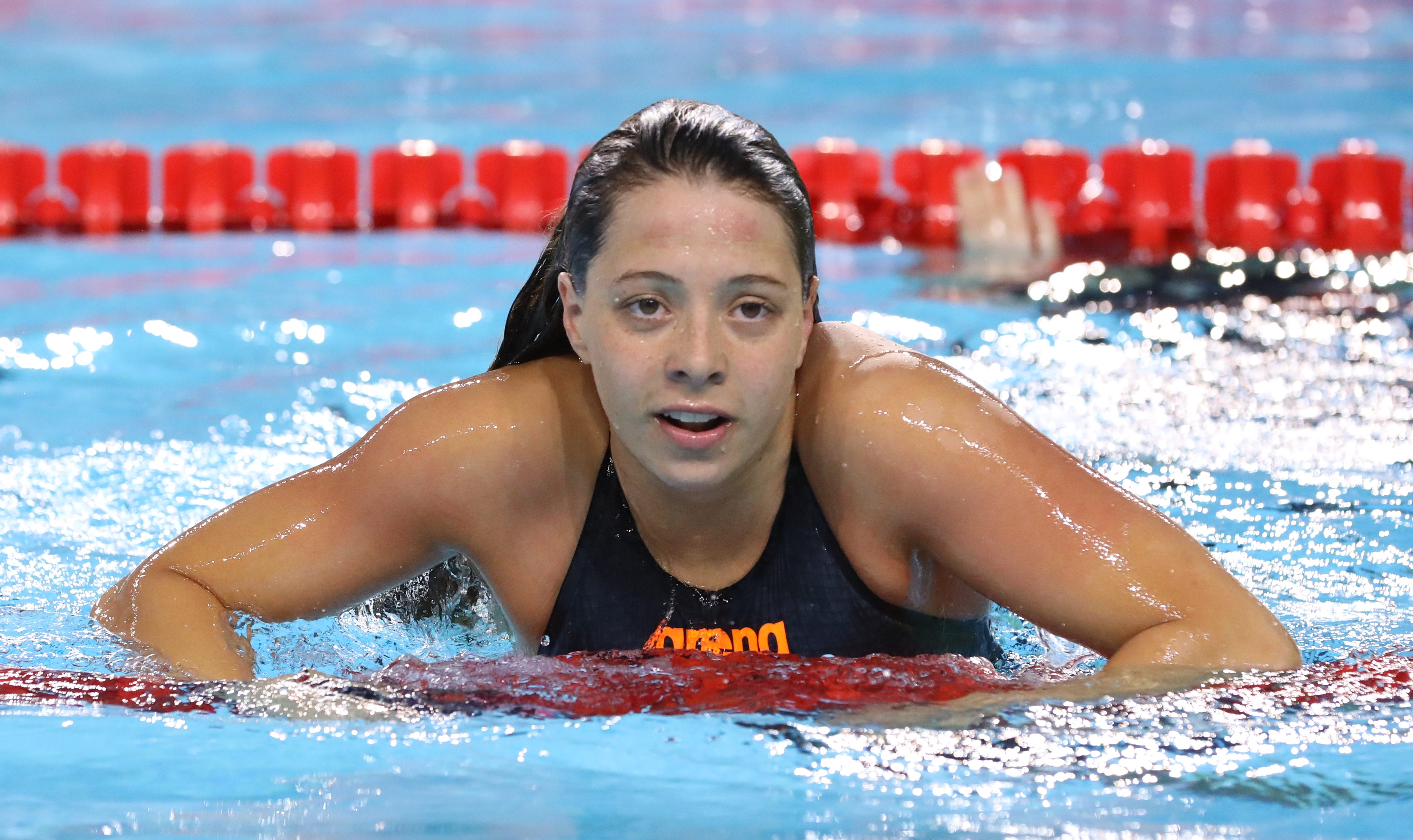 Girls' Swimming, Semifinal 2, 50 m Backstroke at the 2018 Summer Youth Olympics in Buenos Aires at the 10th October 2018